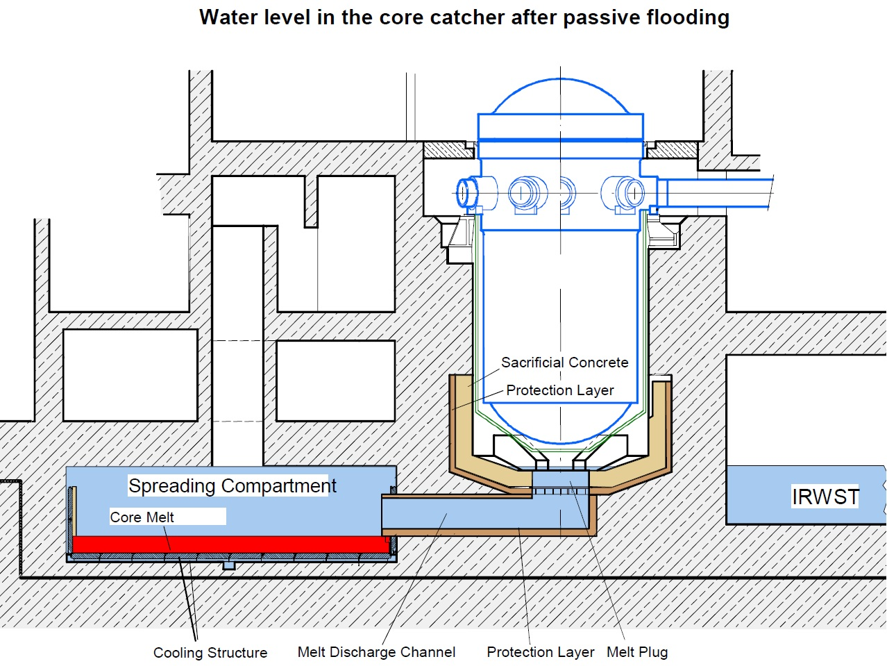 Passive flooding of EPR's core catcher